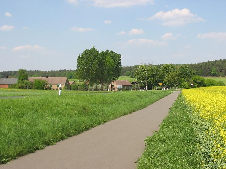 Part of Flaeming-Skate in Brandenburg, Germany. The Flaeming-Skate is a 190 kilometres long way especially for inline roller skating and bicycles in the district Teltow-Fläming. Here nearby the village Ließen, part of the town Baruth (Mark), with view to the Golmberg.